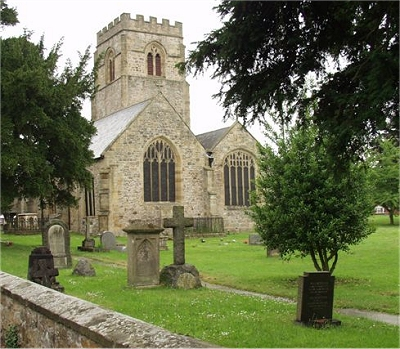 Y Waun parish churchOriginal photograph taken by John Haynes, June 2006